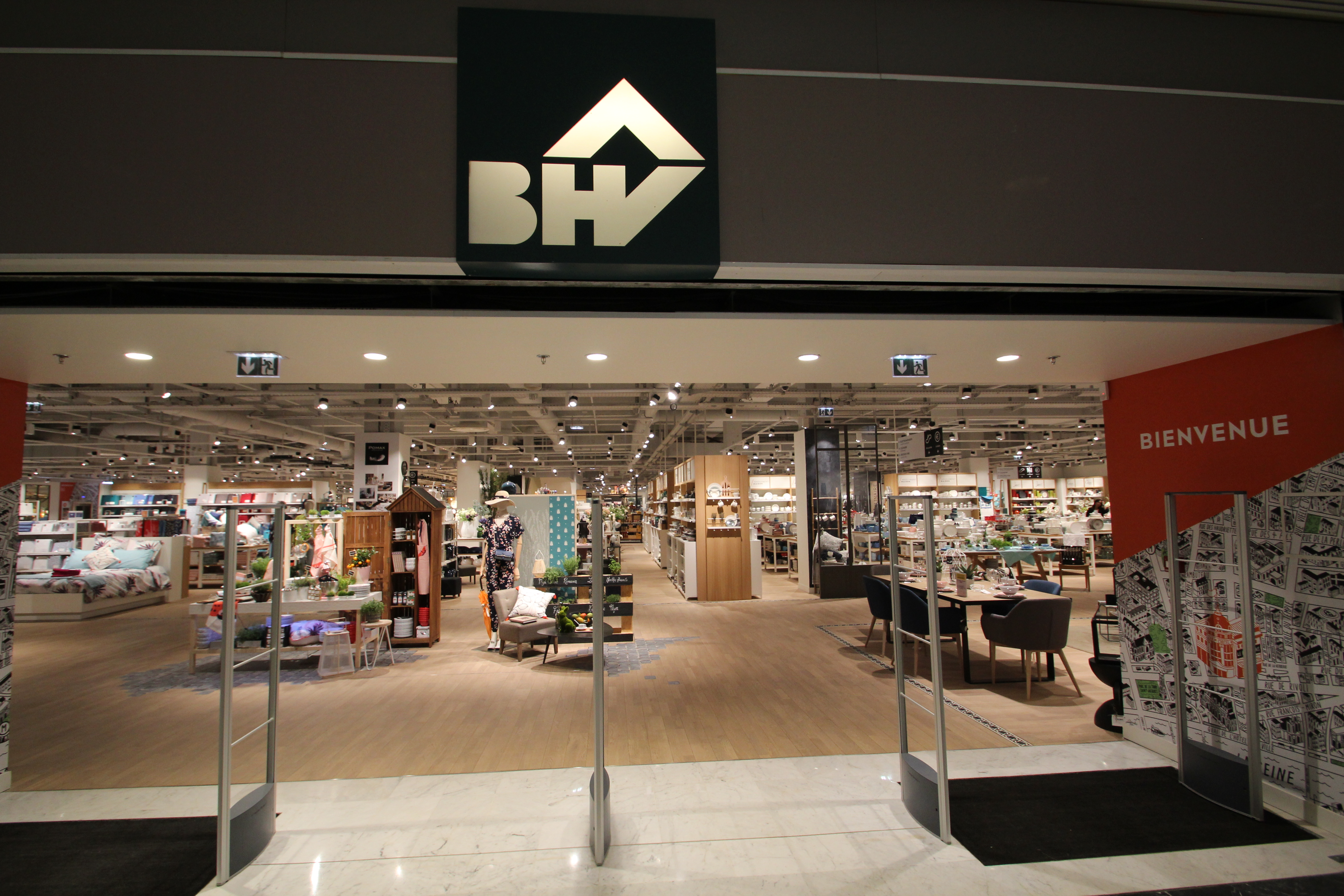 Views from inside Parly 2, a shopping mall in Le Chesnay, France. Object location48° 49′ 16.9″ N, 2° 06′ 53.06″ E